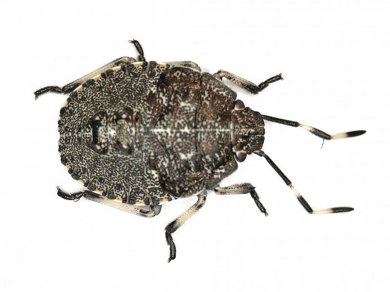 Rhaphigaster nebulosa (Pentatomidae) (Mottled Shieldbug) - (nymph), Arnhem - Schuytgraaf, the Netherlands